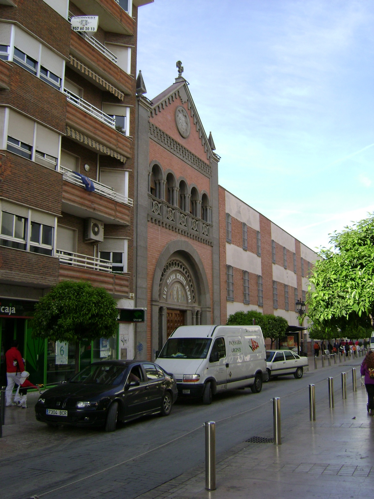 Compañía de María's church in Puente Genil